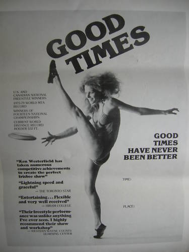 This Poster was created by Ken Westerfield 1980